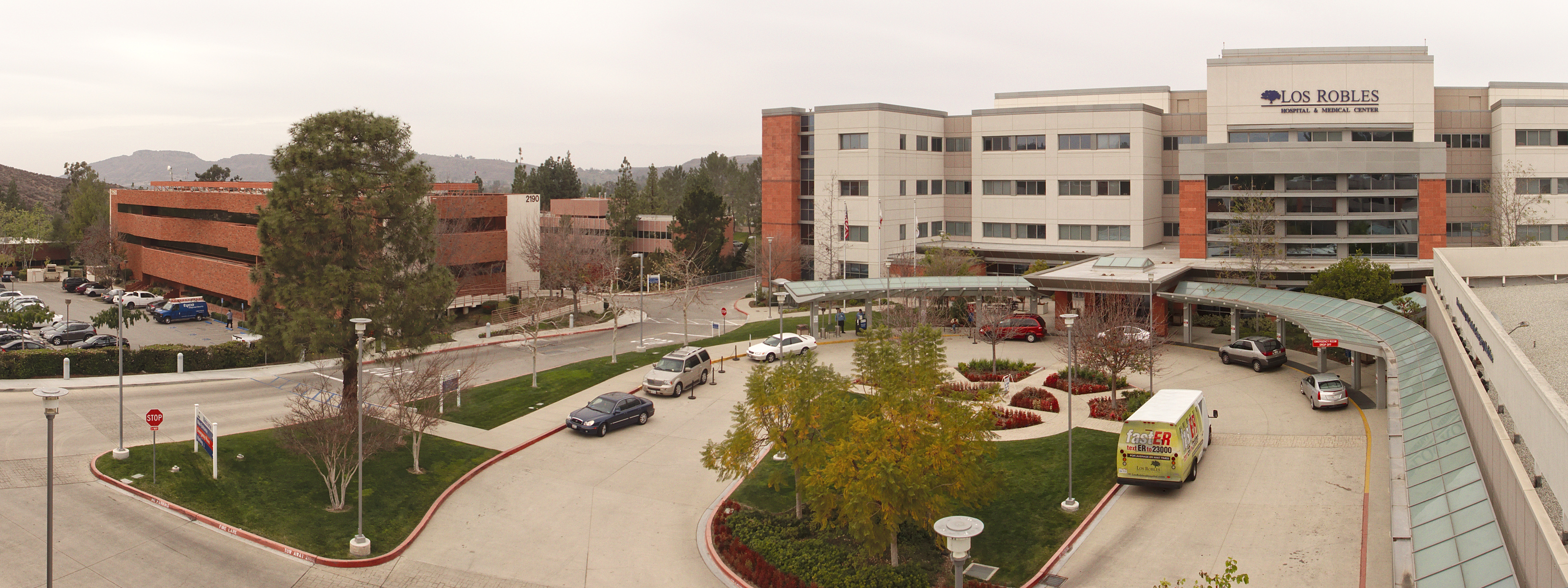 Los Robles Regional Medical Center in Thousand Oaks, California.